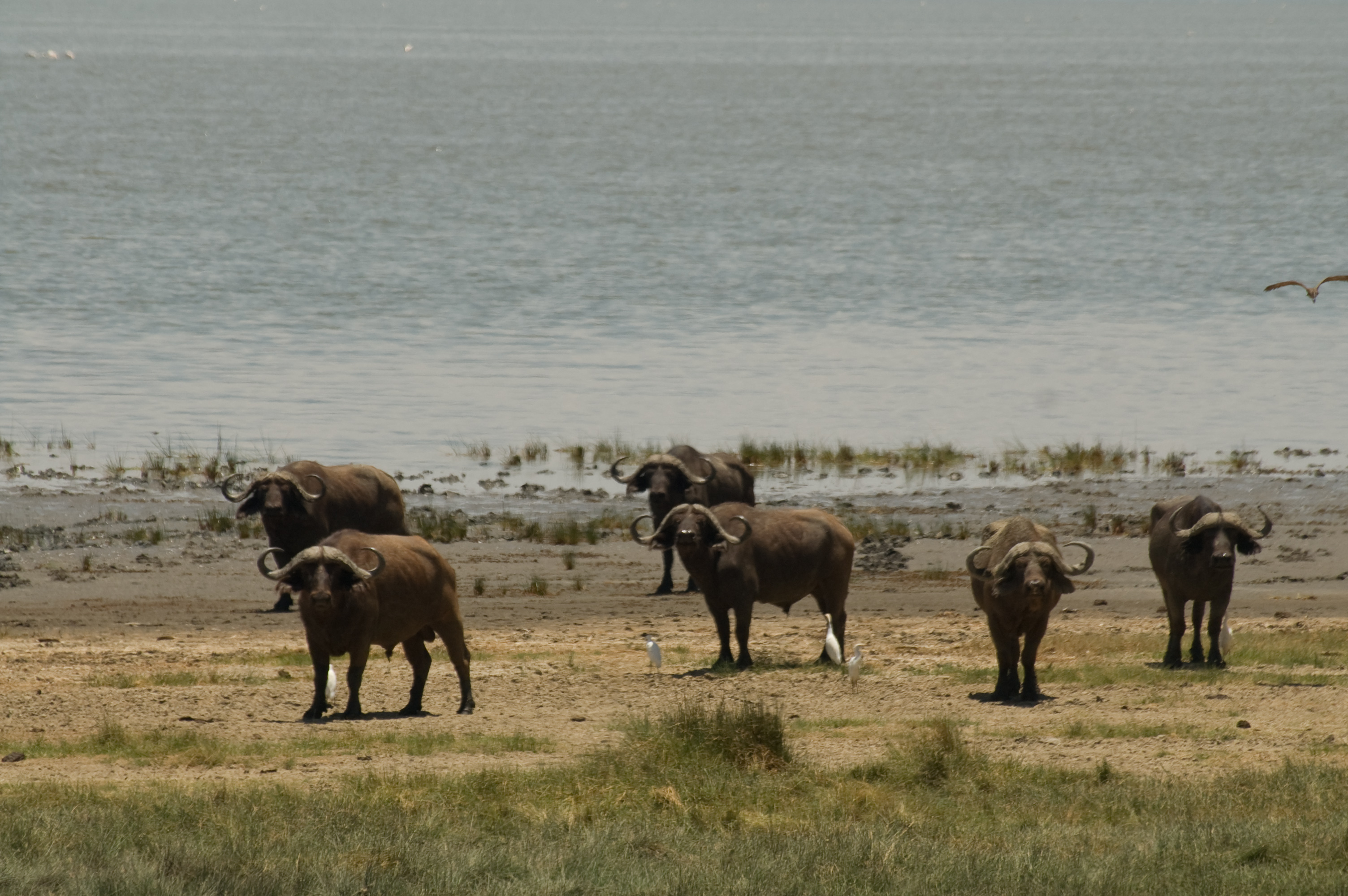 African buffalo (Syncerus caffer) in Lake Manyara national park, Tanzania.